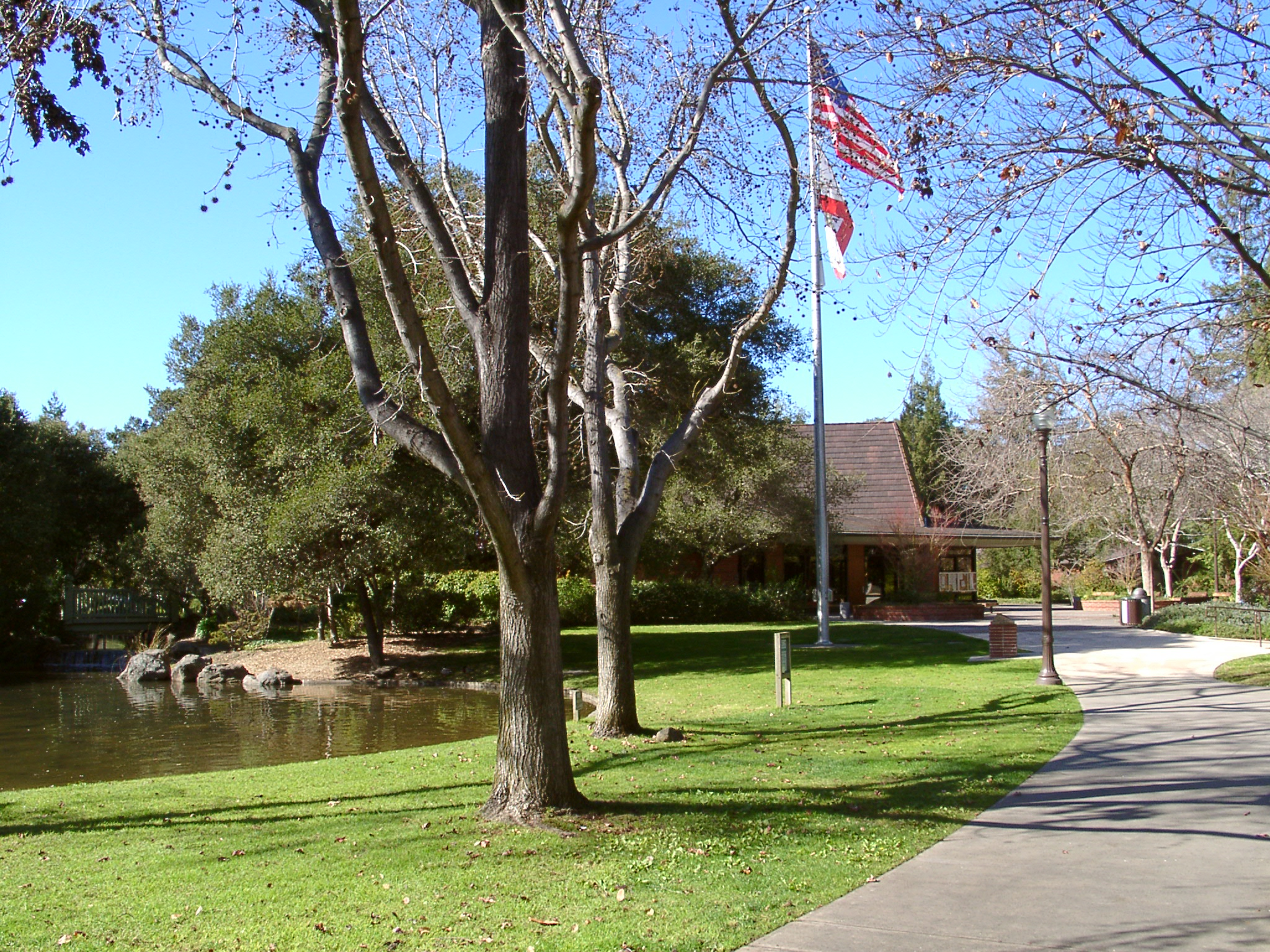 Menlo Park Civic Center includes gardens, a park and an artificial stream and pond